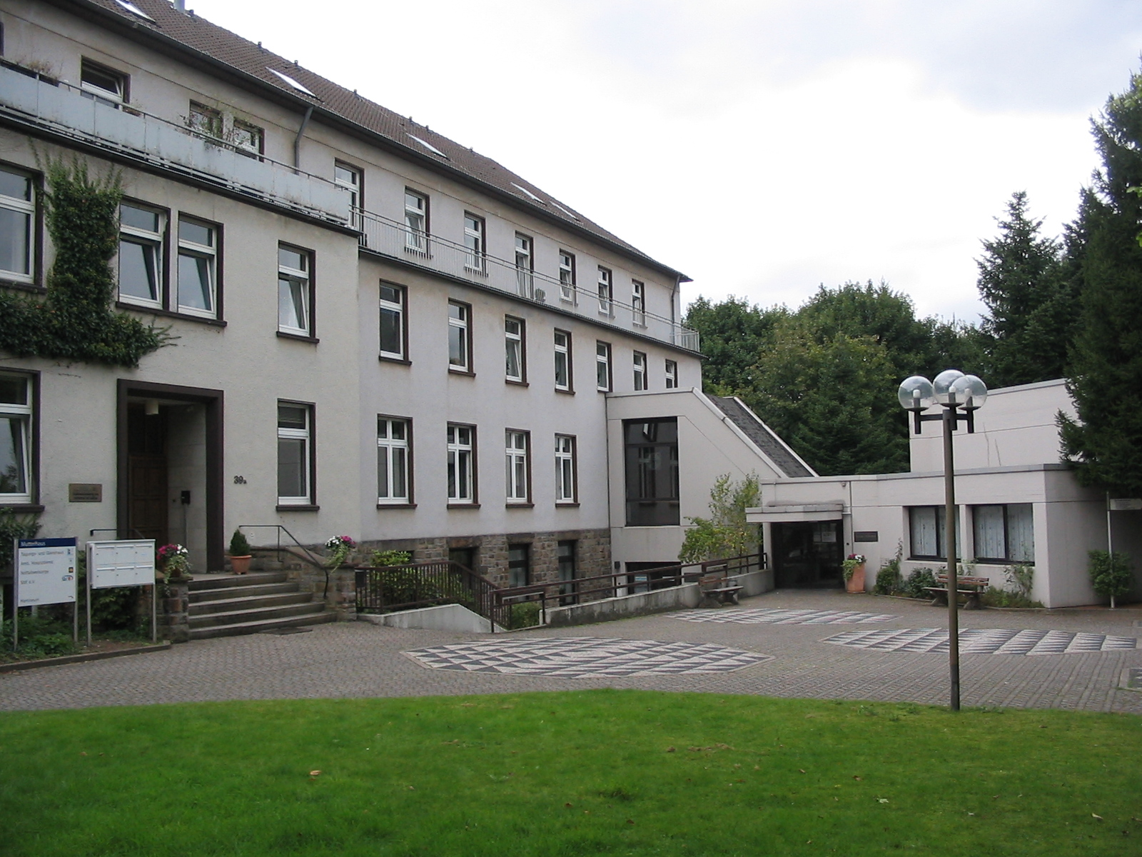 Mutterhaus/Martineum/Lukas-Zentrum in Witten